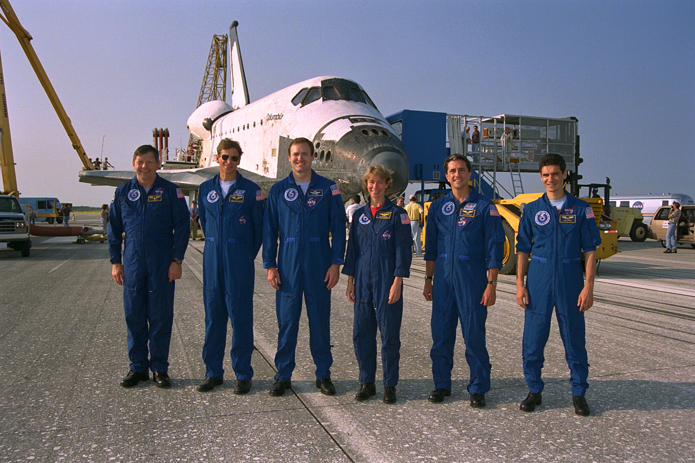 STS-94 Crew after landing at KSC's SLF